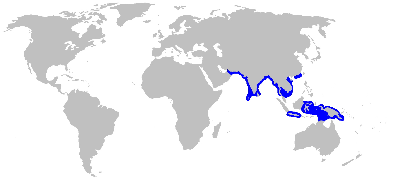 Distribution of the Pondicherry shark. Based on [1]